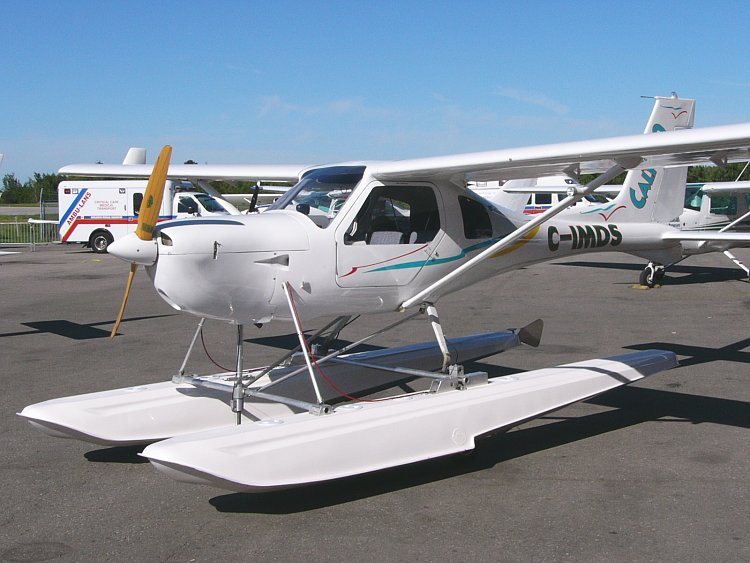 I took this photo of a 2003 mdel Jabiru Calypso 3300 (C-IMDS) on amphibious floats at the Canadian Aviation Expo in Oshawa in 2004.